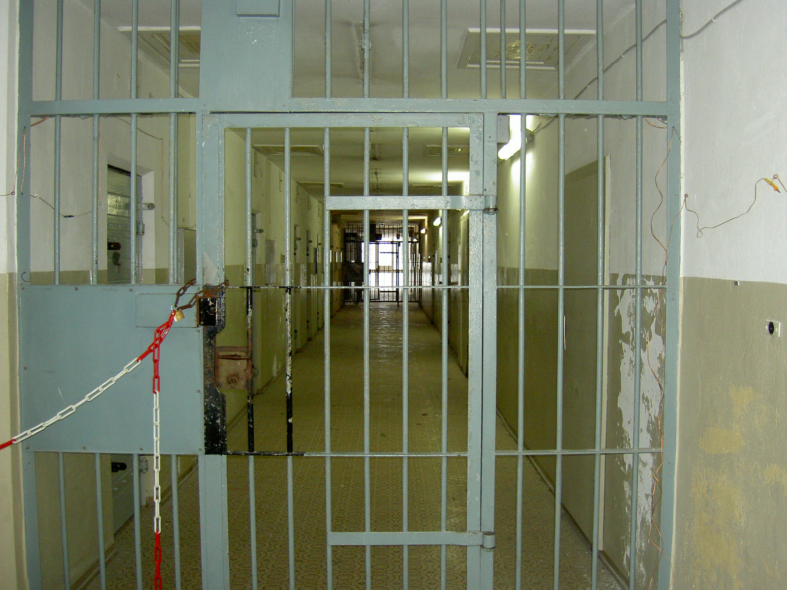 Cells course in Memorial place Berlin-Hohenschönhausen Former institute for remand of the German Democratic Republic.